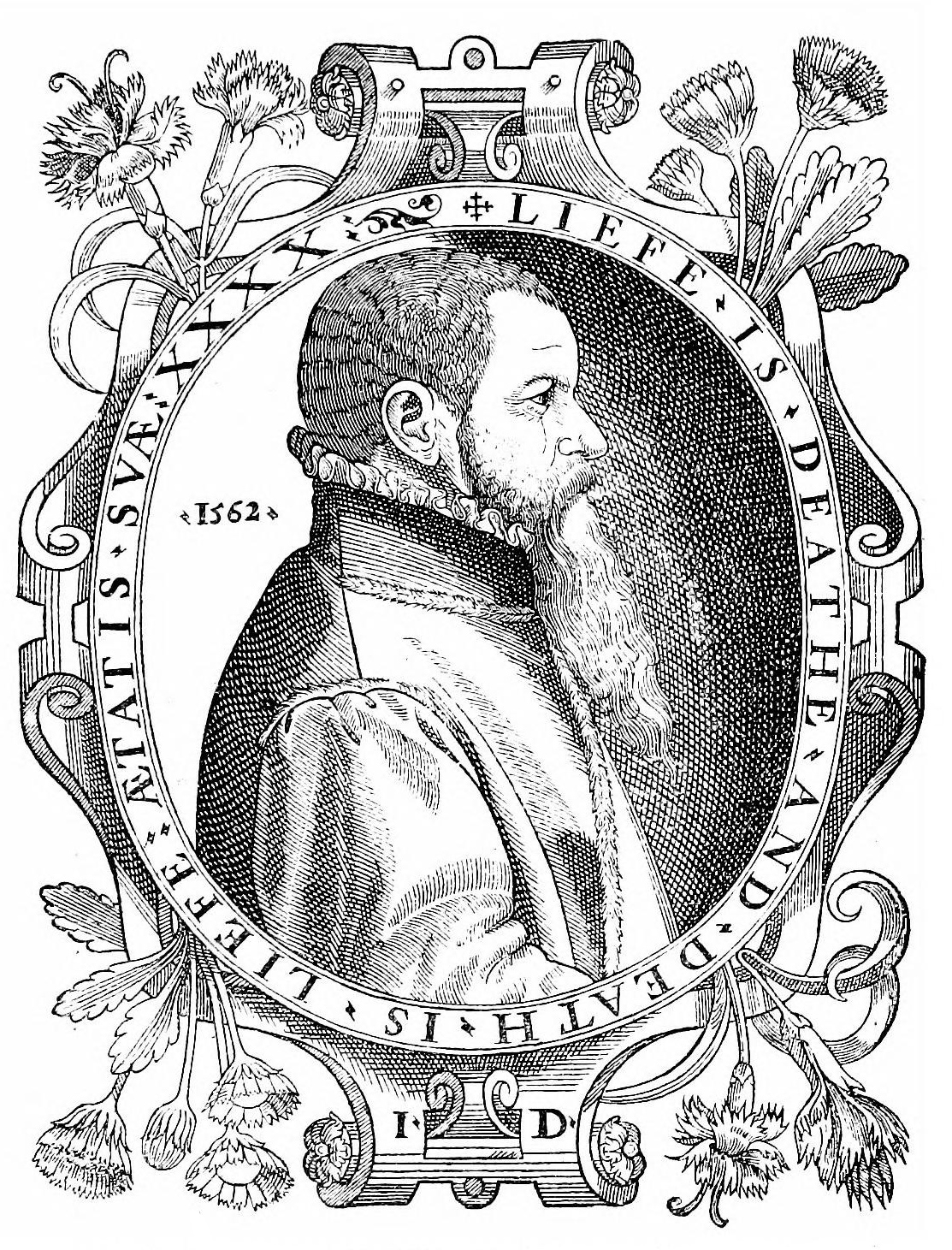 John Day (1522-1584) Downloaded with modifications (cropping) from